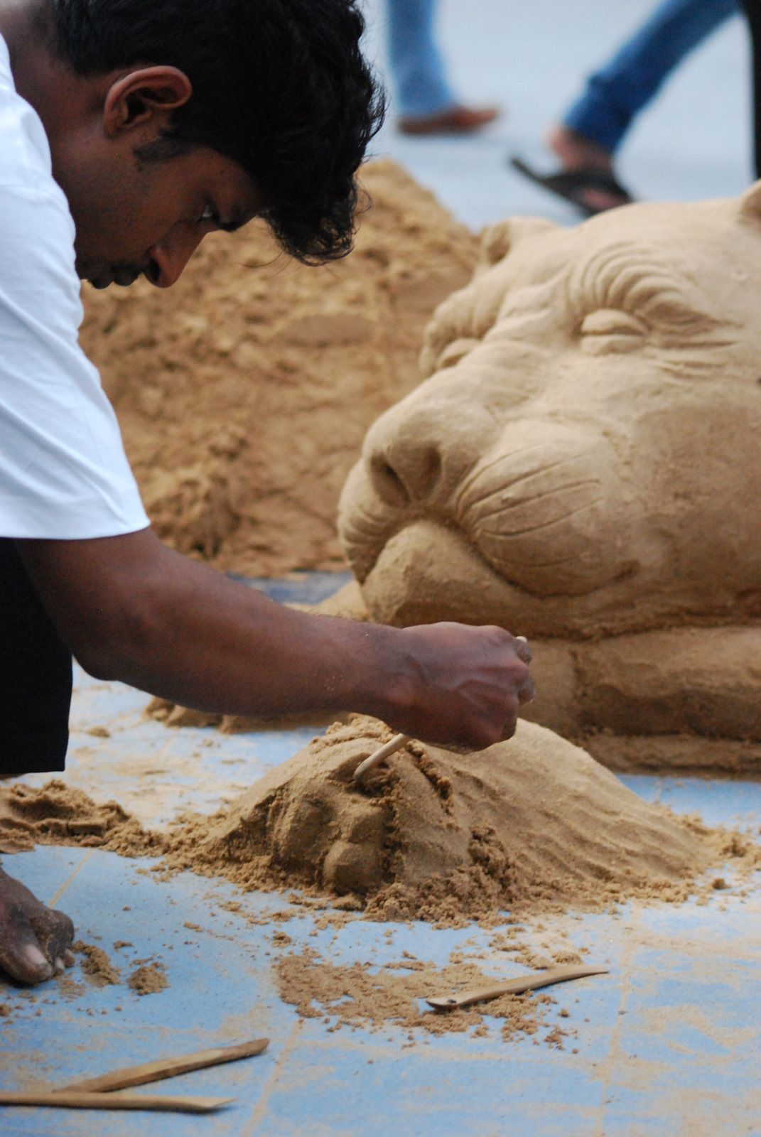 copyright Anoop Mathew